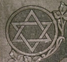 Star of David on Jewish gravestone, Krugerdorf, Ontario